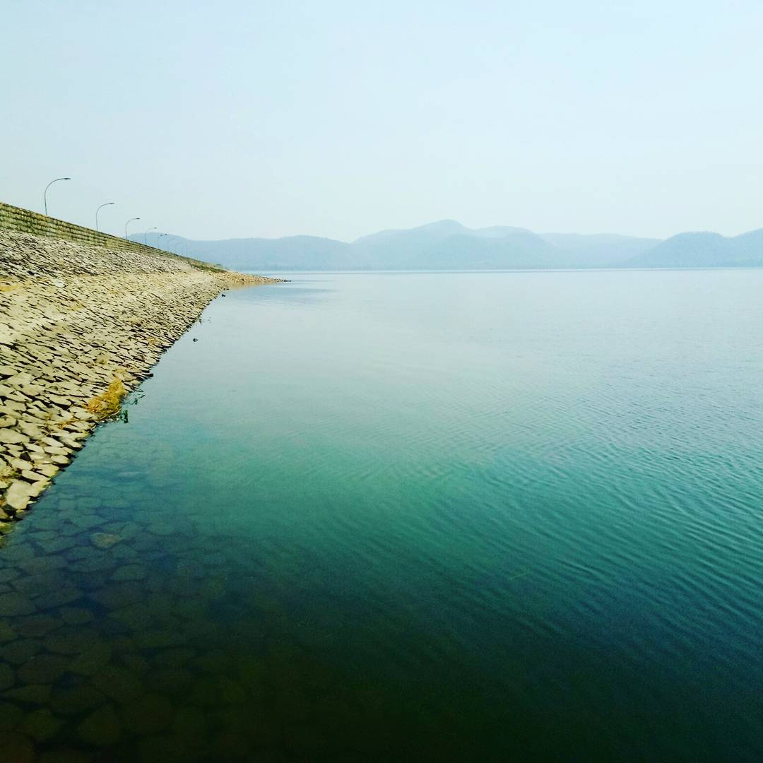 sondur dam at Nagari-Sihawa at Dhamtari District (C.G.)